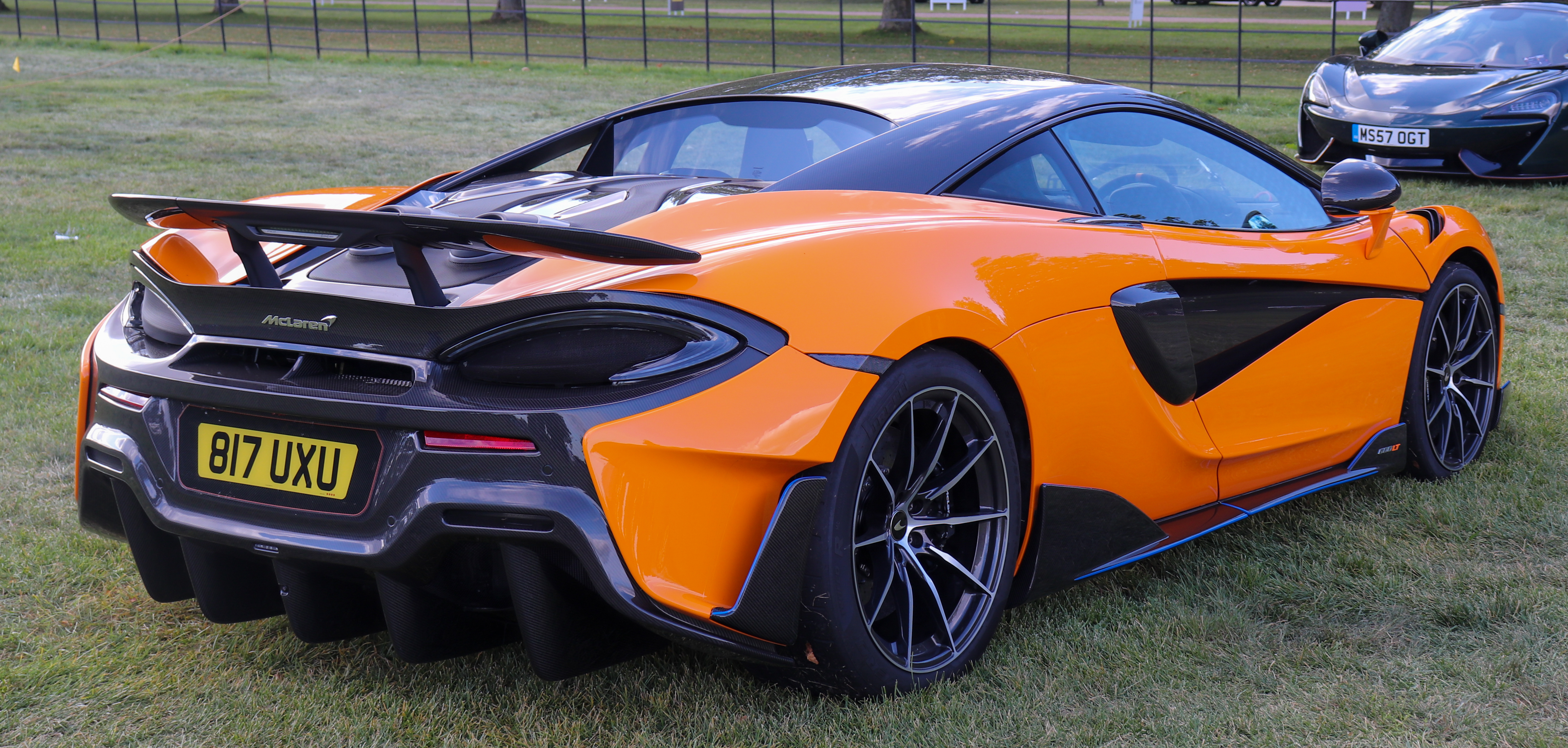 2019 McLaren 600LT V8 S-A 3.8 Rear Taken at the Salon Privé Concours d'Elegance Classic Car Motor Show 2019, Blenheim Palace